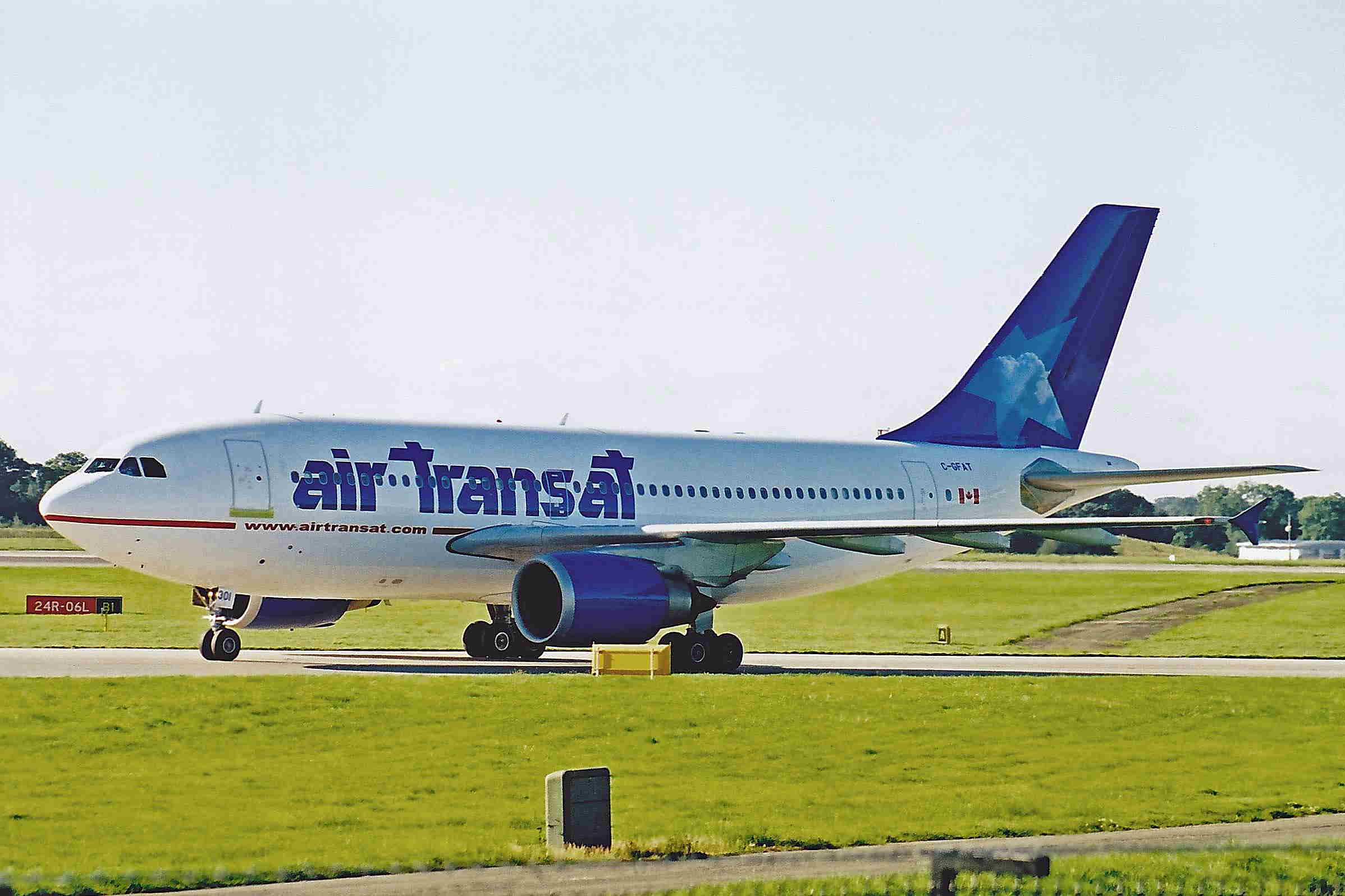 A picture of an airplane (name of it is on the file name).